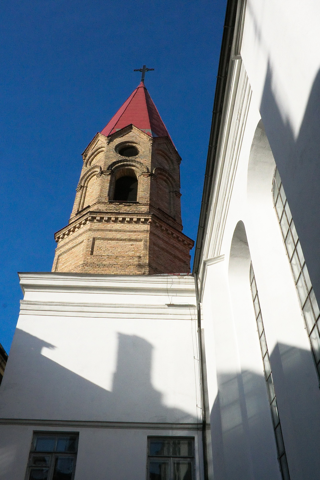 Evangelical Lutheran Church in Vilnius